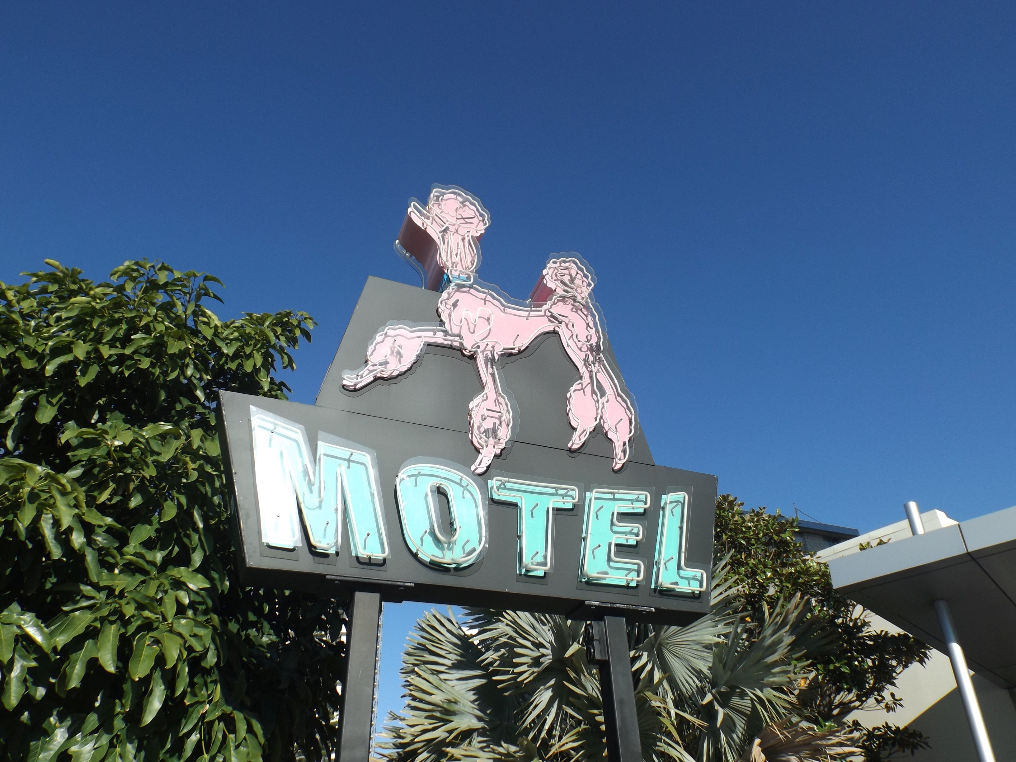 Photo of the The Pink Poodle sign at Surfers Paradise, Gold Coast City, Queensland, Australia.